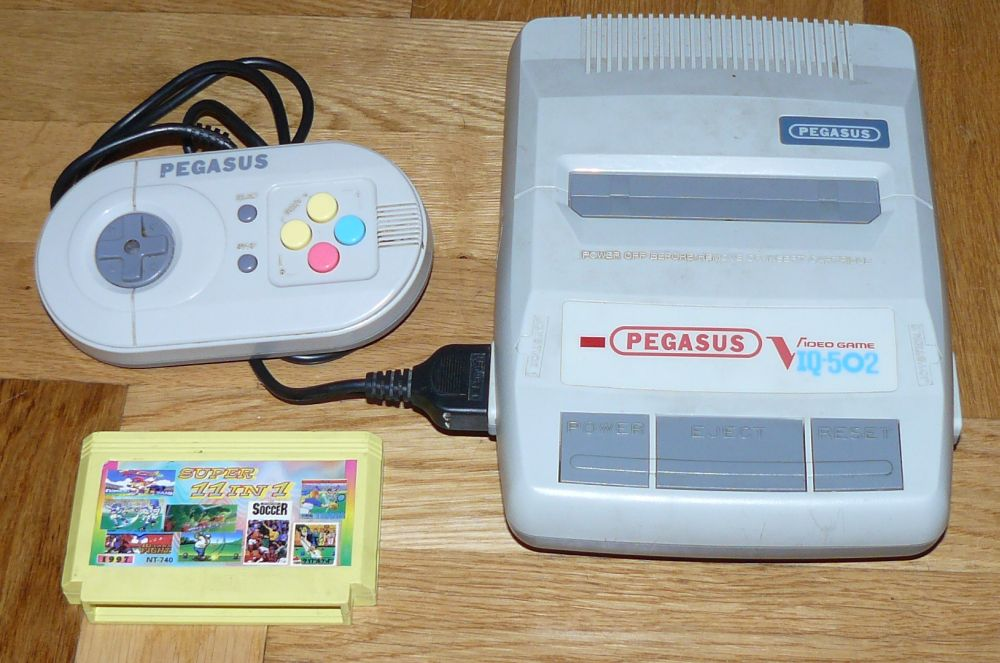 A picture of the game console "Pegasus", a clone of the Nintendo Famicom (NES).